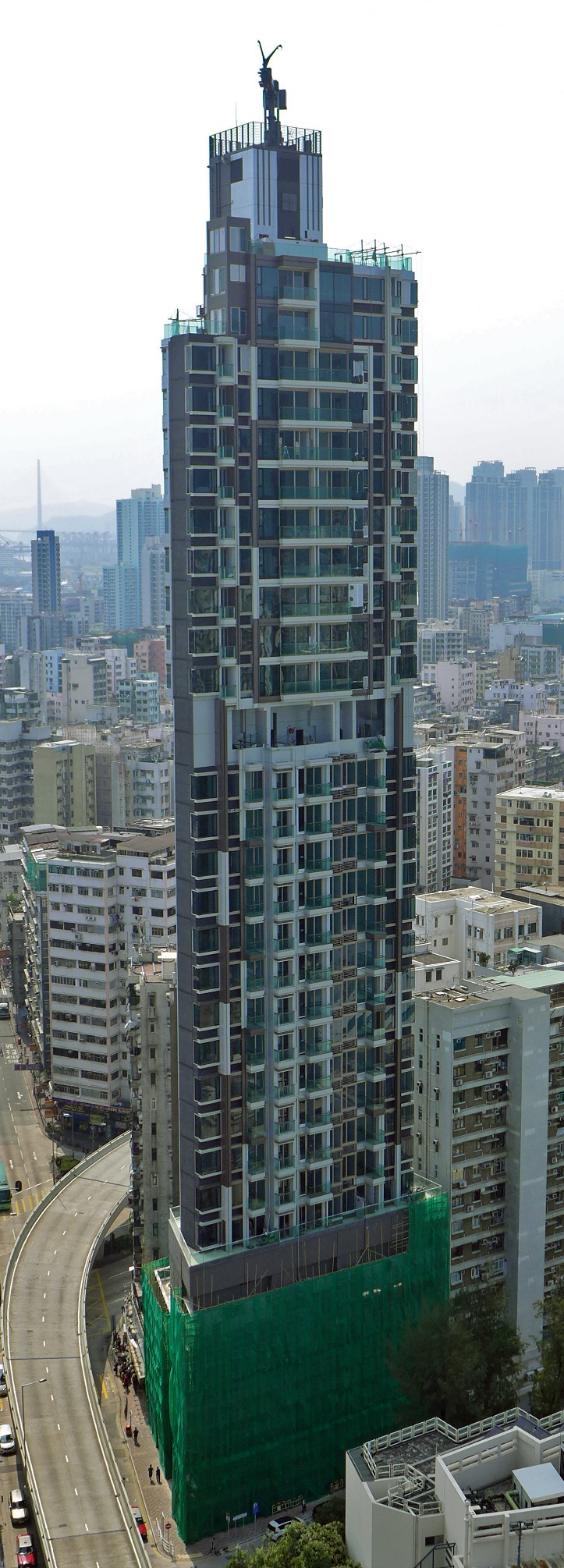 High Park, Prince Edward, Hong Kong